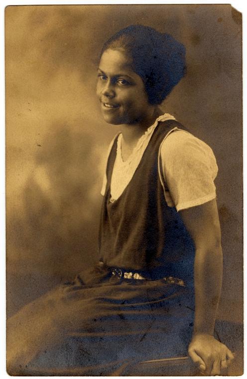 Photograph of Gwendolyn Bennett taken between 1920-1929